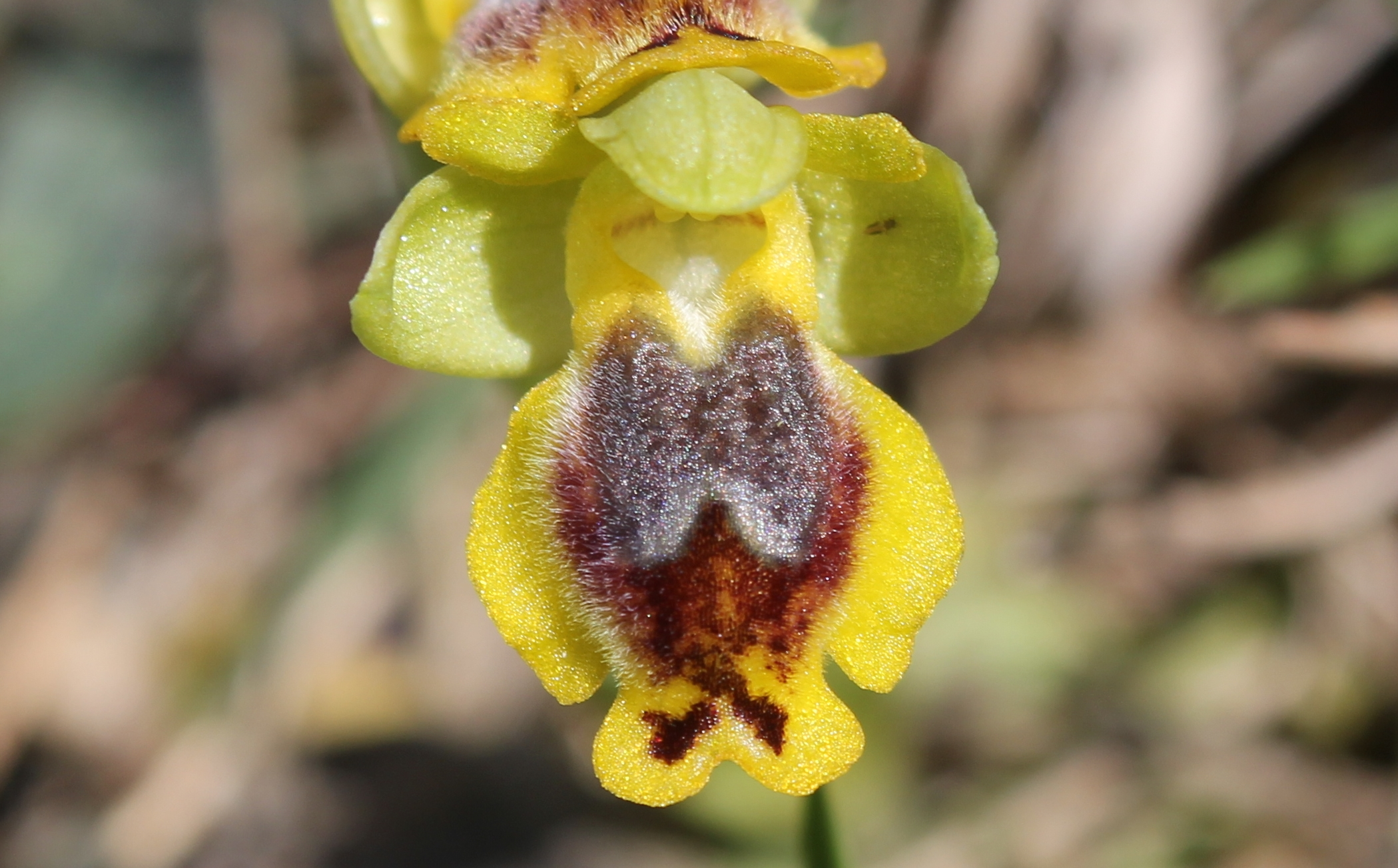 Ophrys lutea subsp. galilaea flower